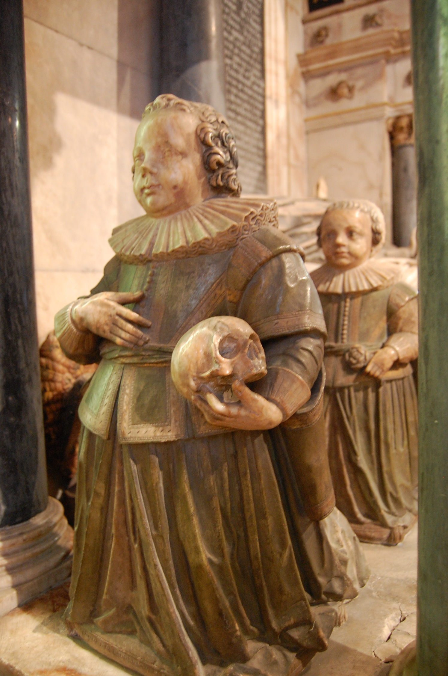 The two sons of Francis Manners, St Mary's church, Bottesford